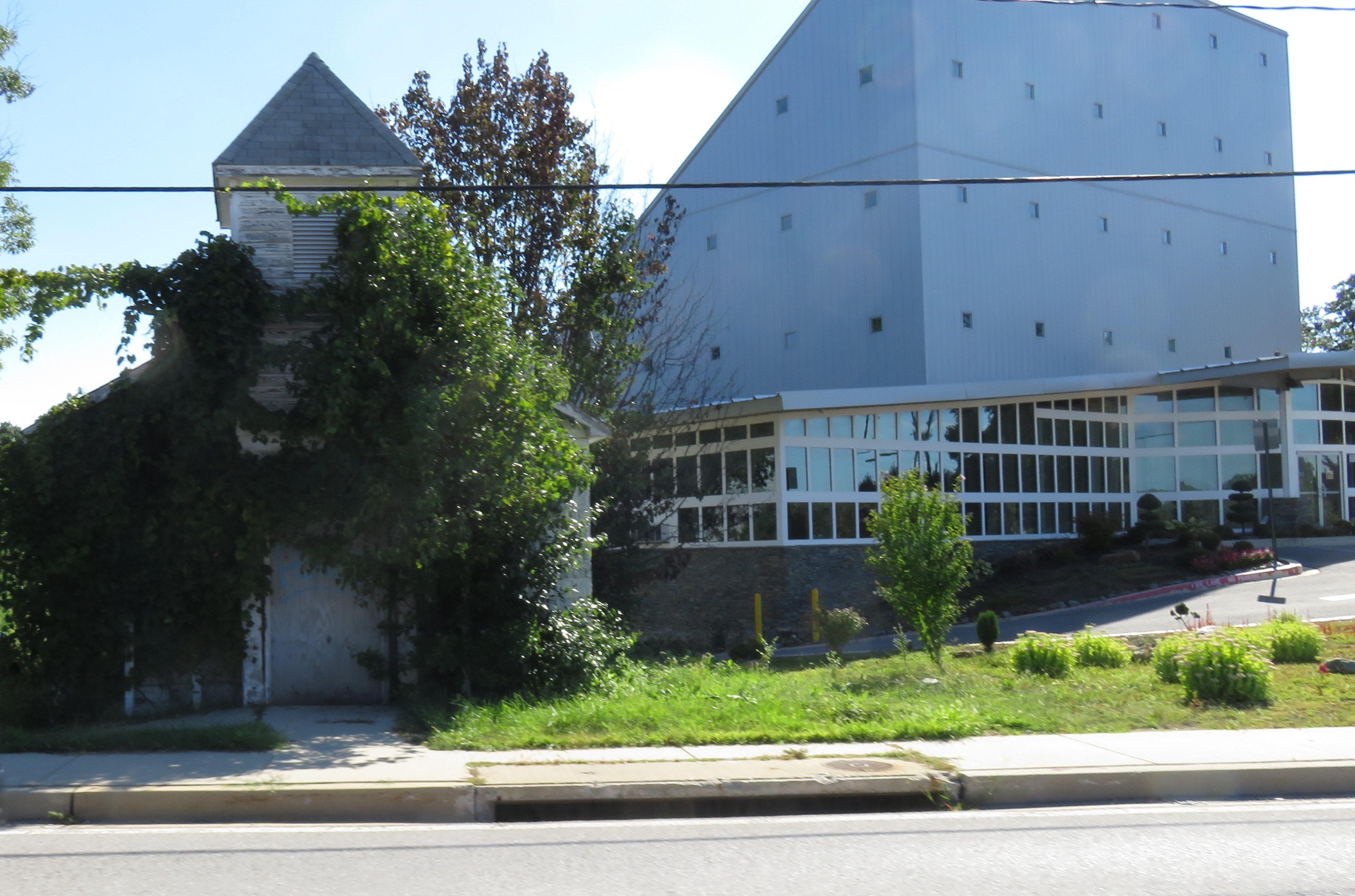 Bellow's Spring Methodist Church